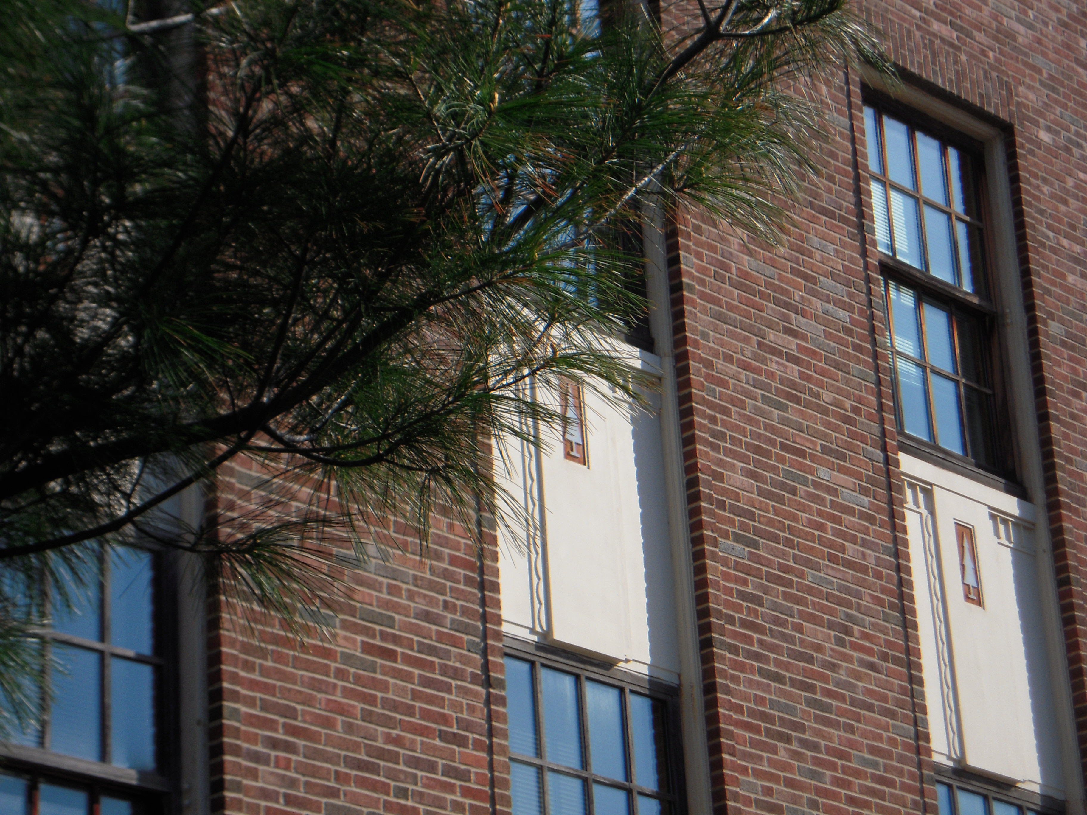 Stone details on Green Hall, the home of the Department of Forest Resources, at the University of Minnesota's St. Paul campus.